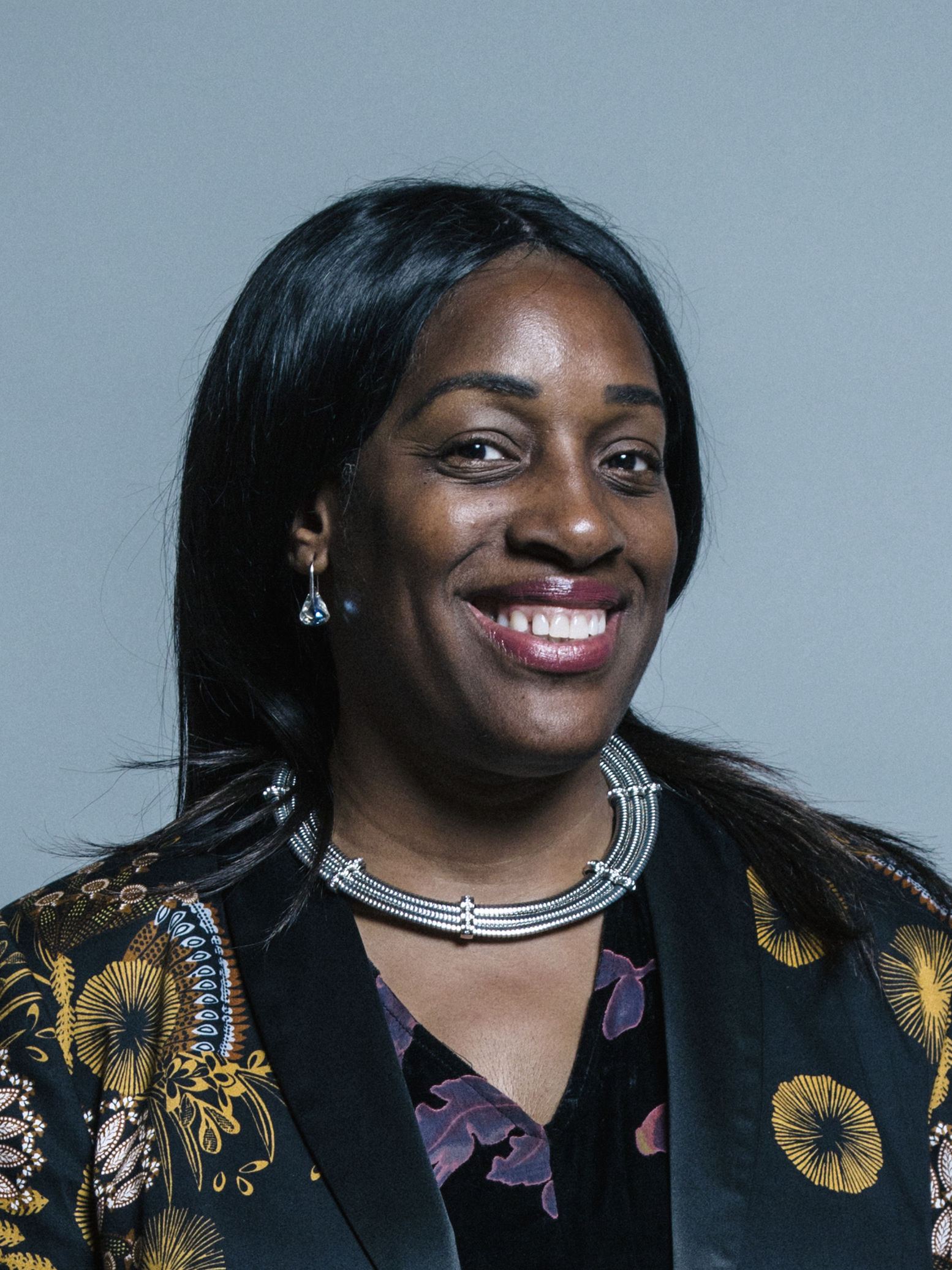 Official portrait of Kate Osamor